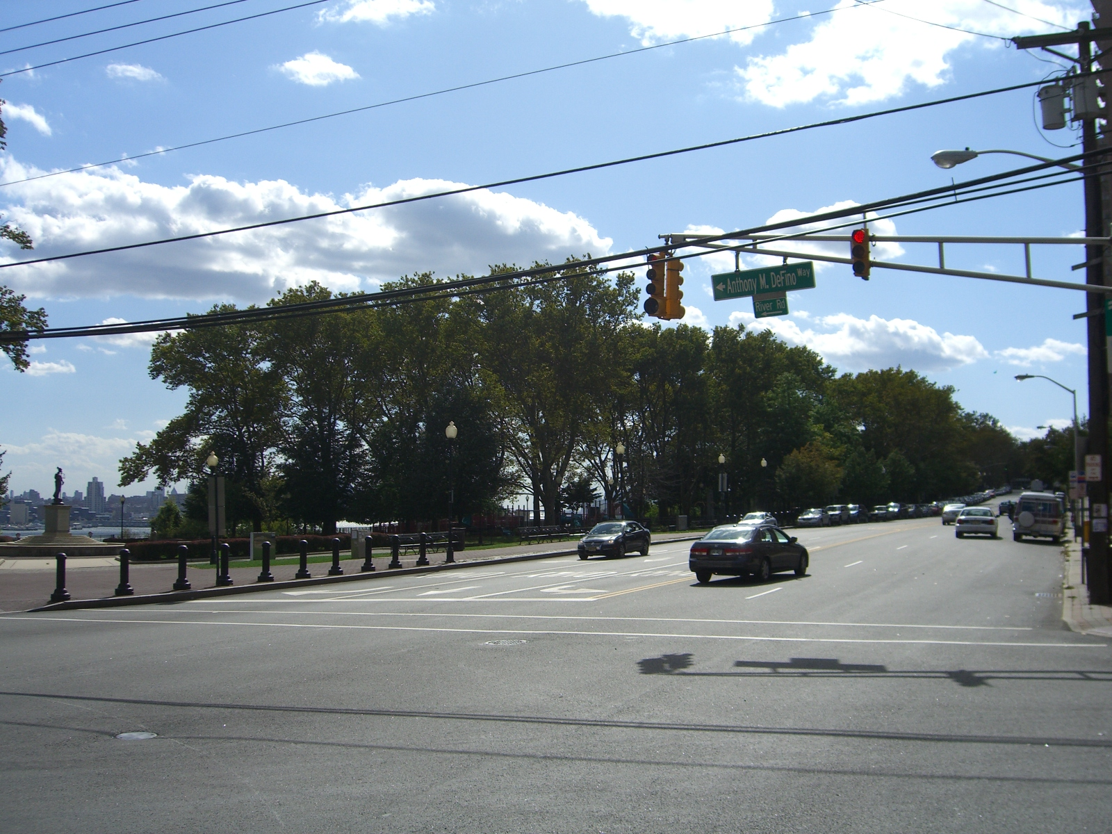 Boulevard East at 60th Street in West New York, New Jersey. In the background at left is the skyline of Manhattan's Upper West Side.